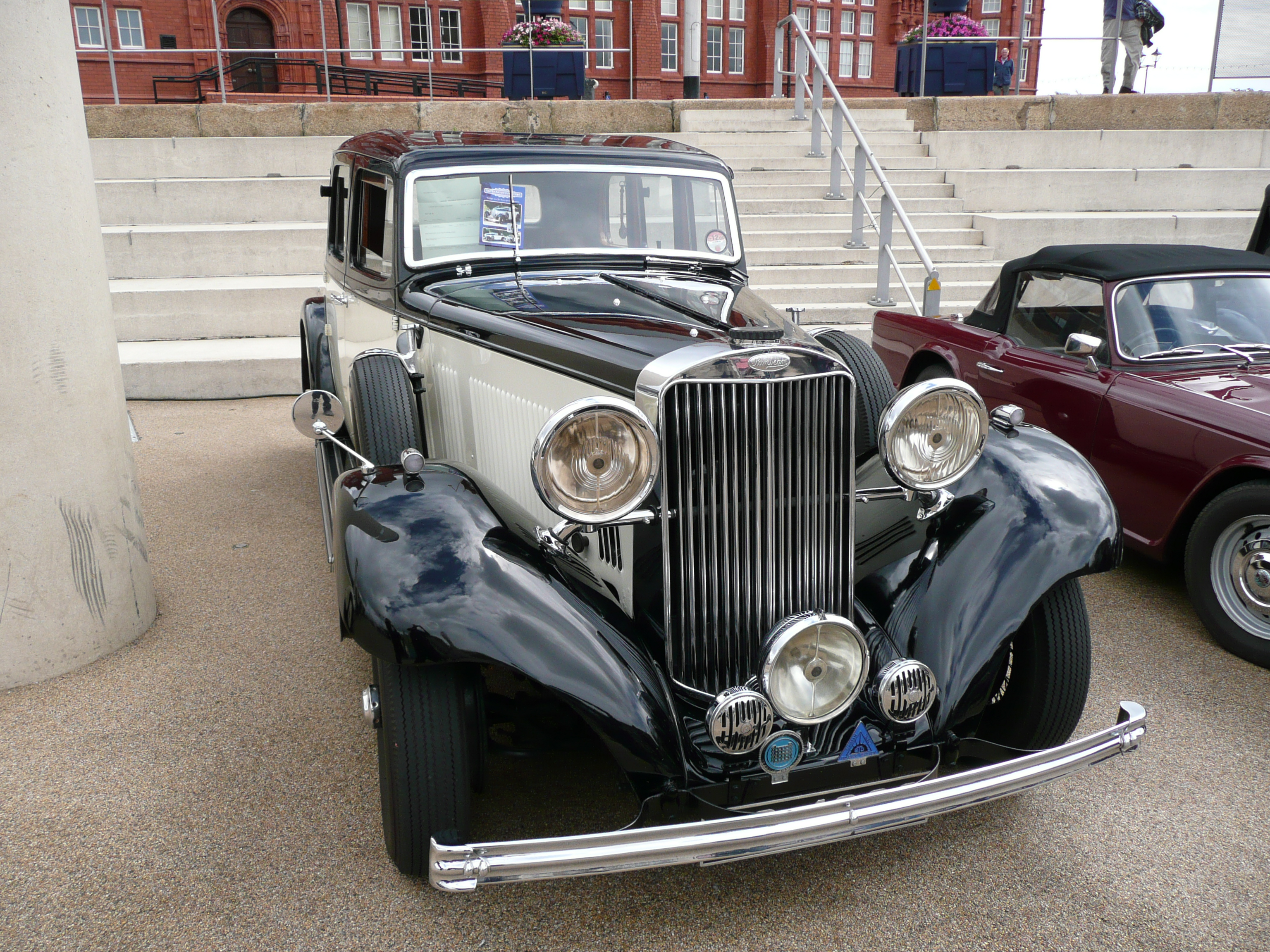 1935 Sunbeam Model 25 Saloon